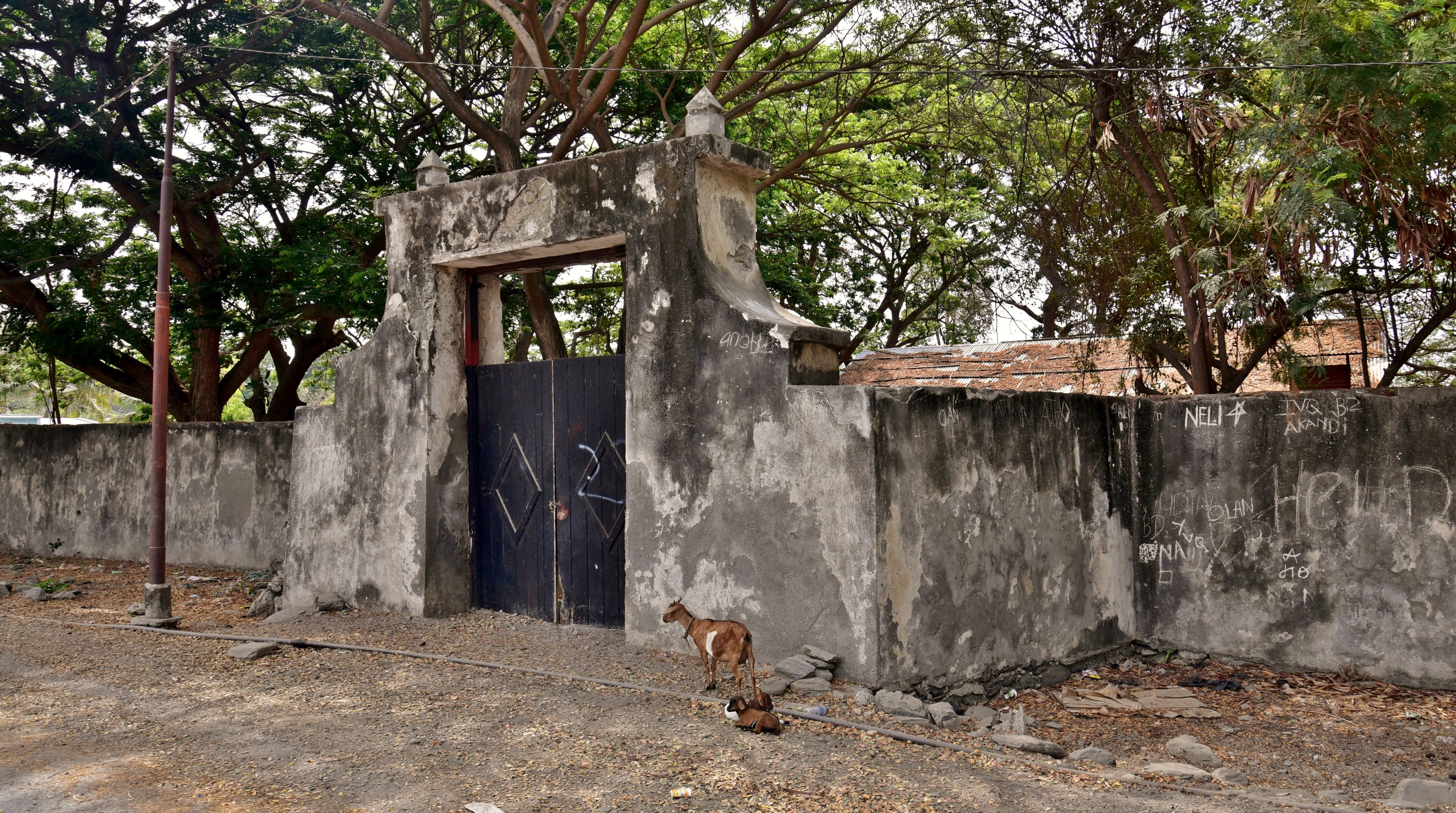 View of the fort in the village of Maubara, East Timor